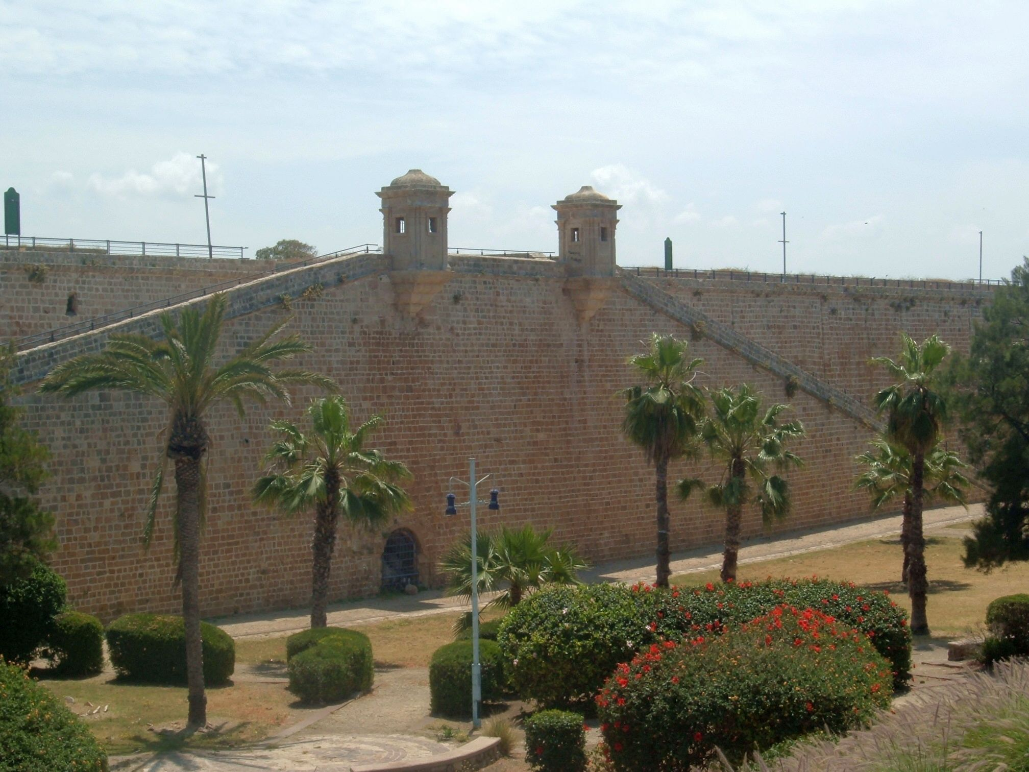 towers in the wall of acre המגדלים בחומת עכו